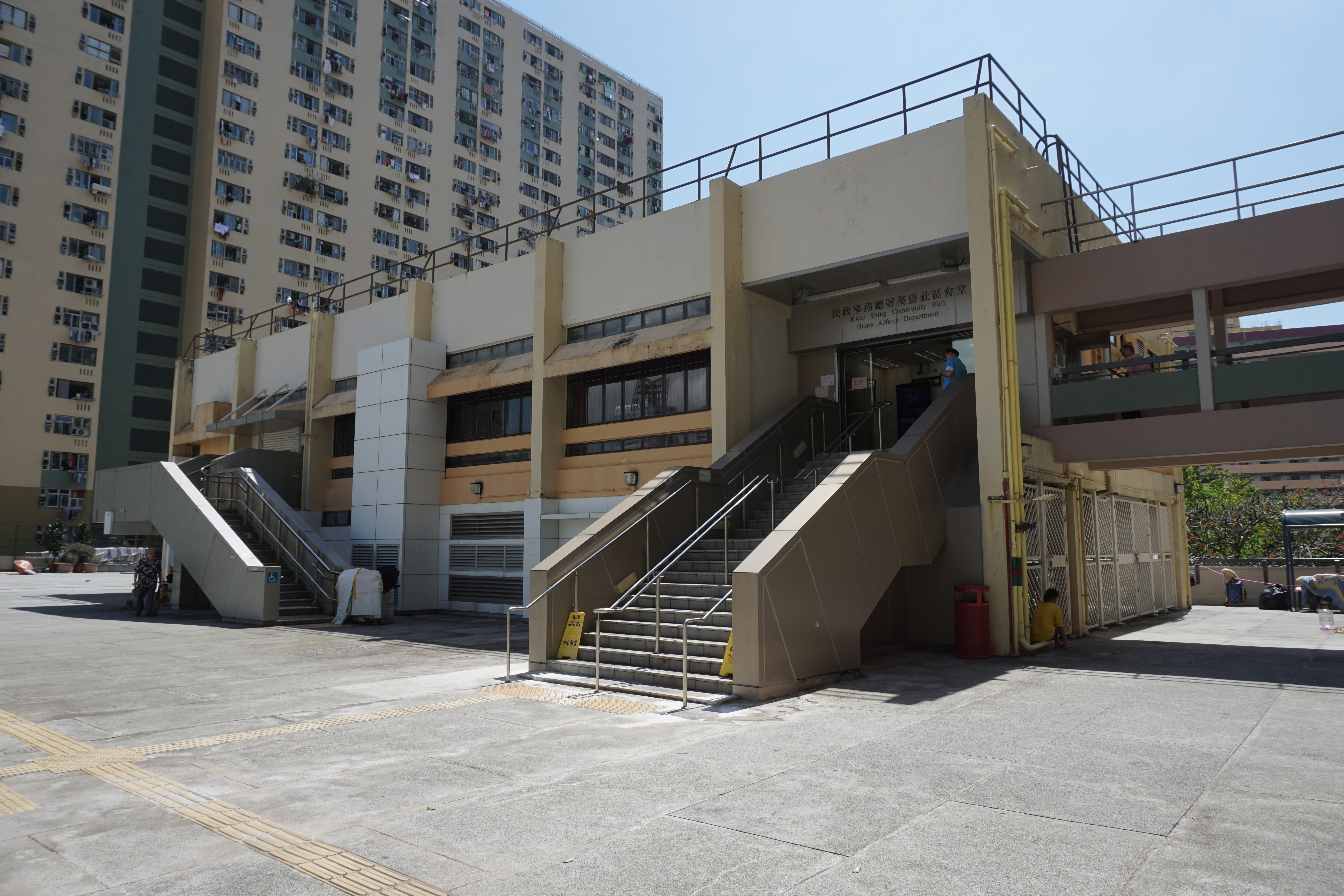 Kwai Shing West Estate in Kwai Shing, Hong Kong.